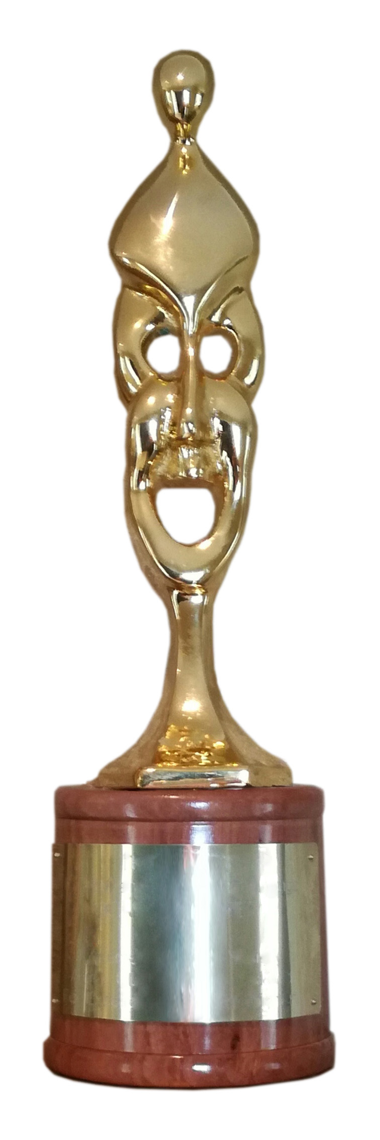 Photograph of the Benny Award, as presented by the Variety Artists Club of New Zealand since 1969 to a New Zealand entertainer for a lifetime of excellence in their field of the performing arts.